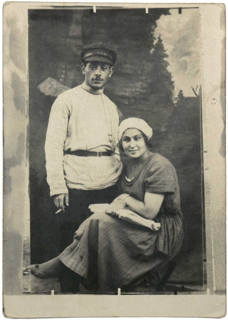 Genrikh Yagoda and his wife Ida Averbakh